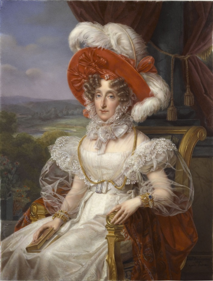 Maria Amalia of the Two Sicilies, queen of the French